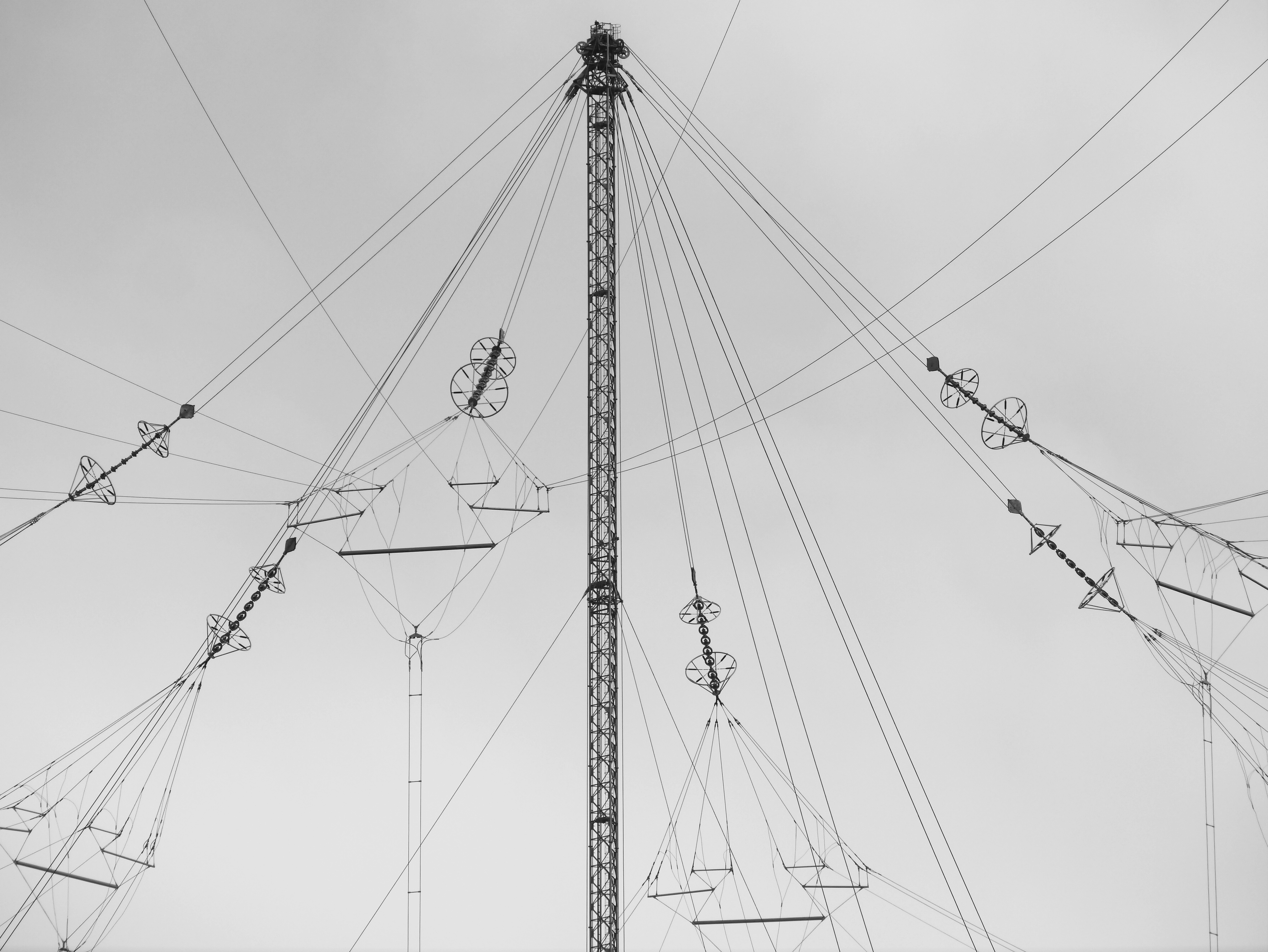 Central mast of the triatic umbrella antenna of the very low frequency (VLF) naval radio transmitter at Anthorn Radio Station, Anthorn, UK, used by the British Navy to communicate with submerged submarines. This facility was actually under the command of NATO, and in a nuclear war would be used to transmit missile launch orders to ballistic missile submarines. It transmits on 19.6 kHz with a callsign of GQD with output power of 550 kilowatts. The antenna consists of six vertical wire radiators (two are visible in the photo) driven at the base of the mast, attached at the six insulator strings visible to six 2148 foot rhombic-shaped horizontal multiwire toploads. These extend at angles of 60° from the central mast, supported by 12 surrounding masts, giving the antenna the shape of a 6-pointed star when viewed from above. The entire antenna is more than a mile in diameter. The standing waves on the high Q antenna create very high voltages on the topload wires, requiring long insulator strings with corona rings at each end to stand the voltage.